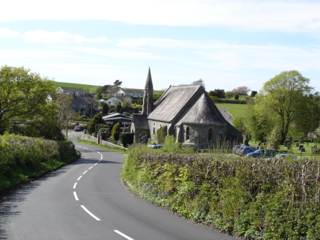 St John The Baptist's Church, Old Hutton Beyond the church is Old Hutton C of E Primary School. The church and school are both on the B6254 running between Kirkby Lonsdale and Oxenholme.